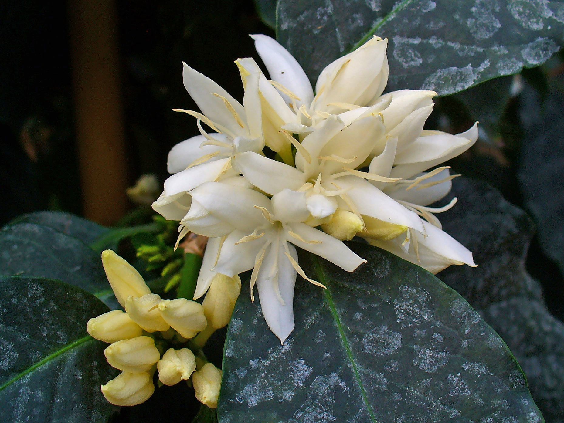 Coffea arabica, Rubiaceae, Arabica Coffee, Mountain Coffee, flowers; Botanical Garden KIT, Karlsruhe, Germany. The unroasted dried beans are used in homeopathy as remedy: Coffea (Coff.)